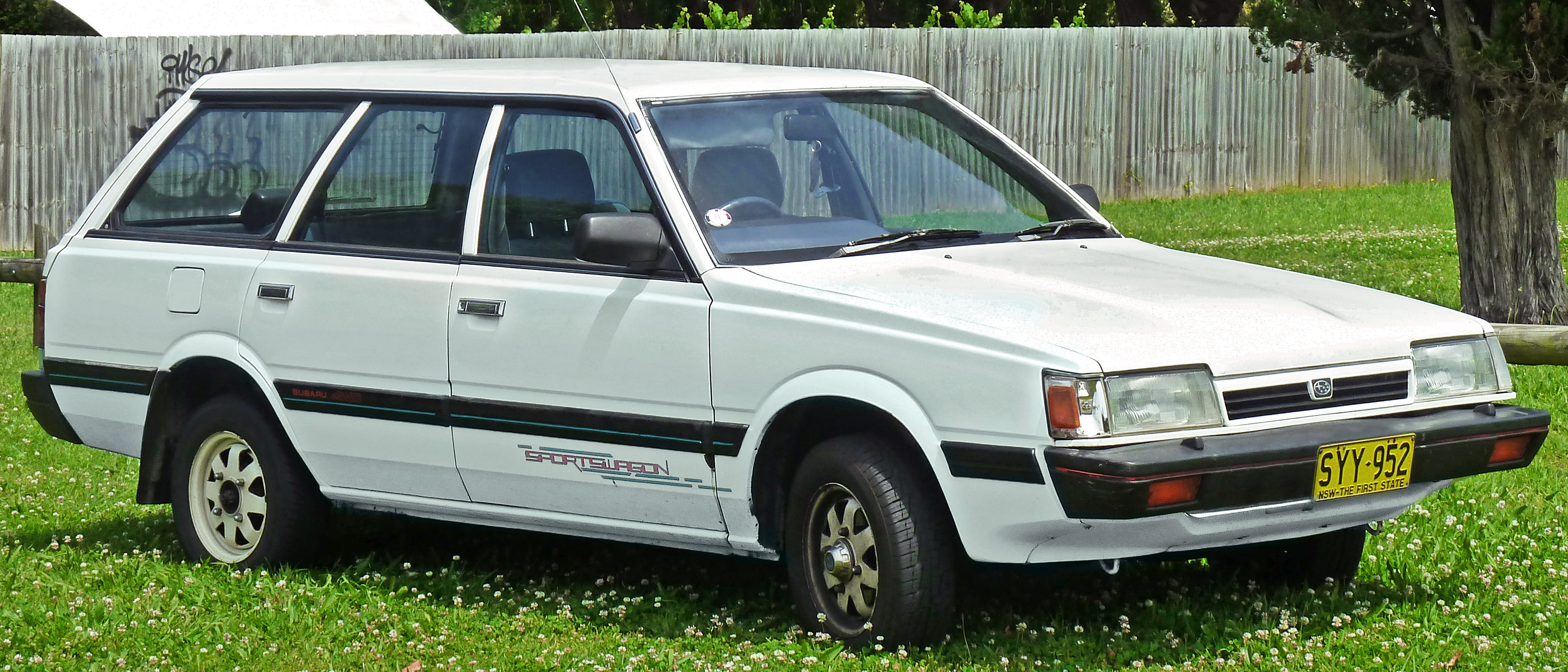 1994 Subaru L Series Deluxe Sportswagon station wagon. Photographed in Gymea, New South Wales, Australia.